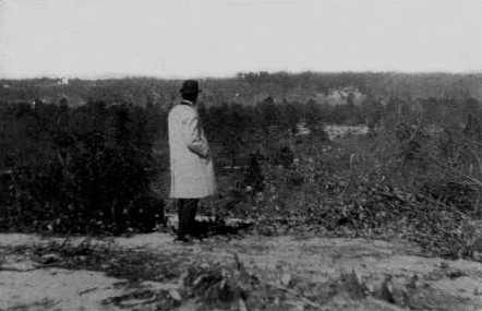 View from 3rd Tee during Construction of Pine Valley Golf Course, Clementon, New Jersey